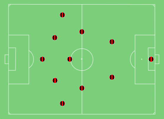 Taktyka i ustawienie Milanu w pierwszym oficjalnym meczu AC Milan tactics in 1st official game Hoberlin Hood — Cignaghi, Lorenzo Torretta, Kurt Lies, Herbert Kilpin, Guido Valerio — Antonio Dubini, Samuel Davies, Penhvyn Neville — David Allison, Attilio Formenti zobacz też / see also: Torinese - Milan.png